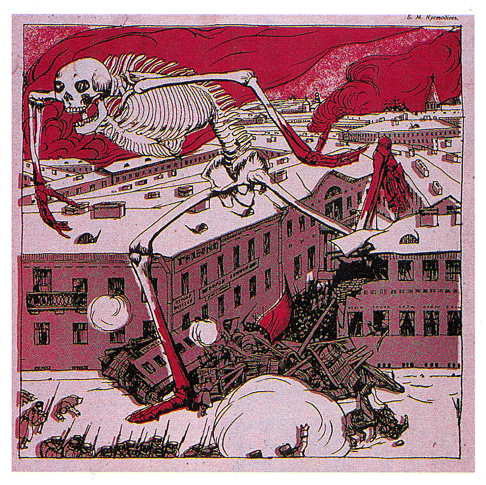 Bugaboo of Revolution. Drawing by Boris Kustodiev, 1905